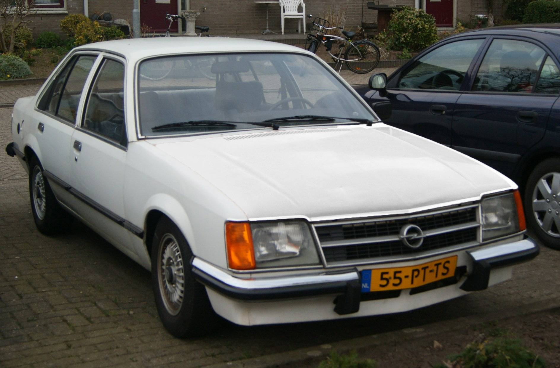 1979 Opel Commodore C 2.5 S Automatic